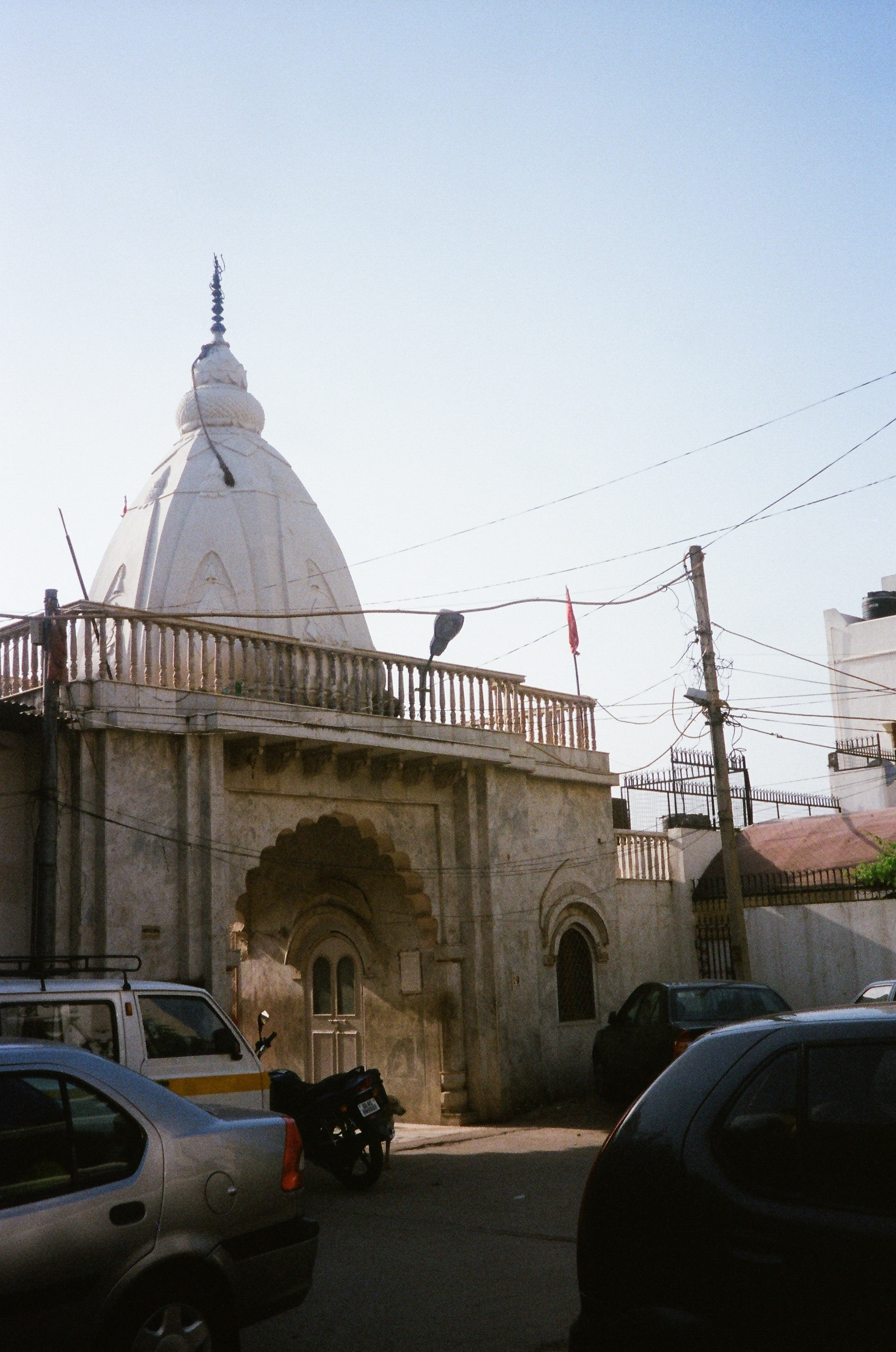 Outer Entrance of Yogmaya Mandir Mehrauli New Delhi